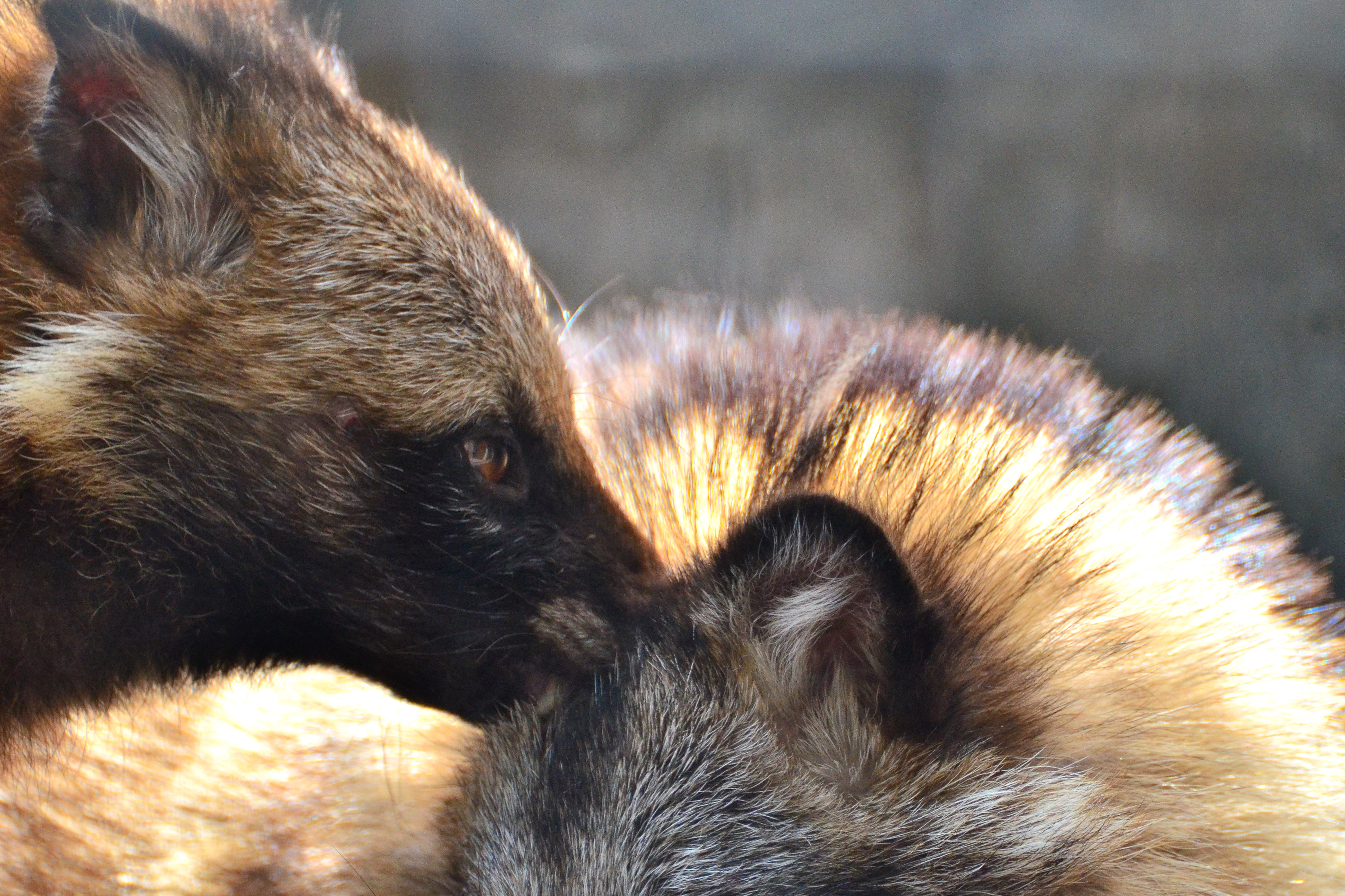 Raccoon Dogs in Nogeyama Zoological Gardens (Nogeyama Park, in Nishi-ku, Japan).